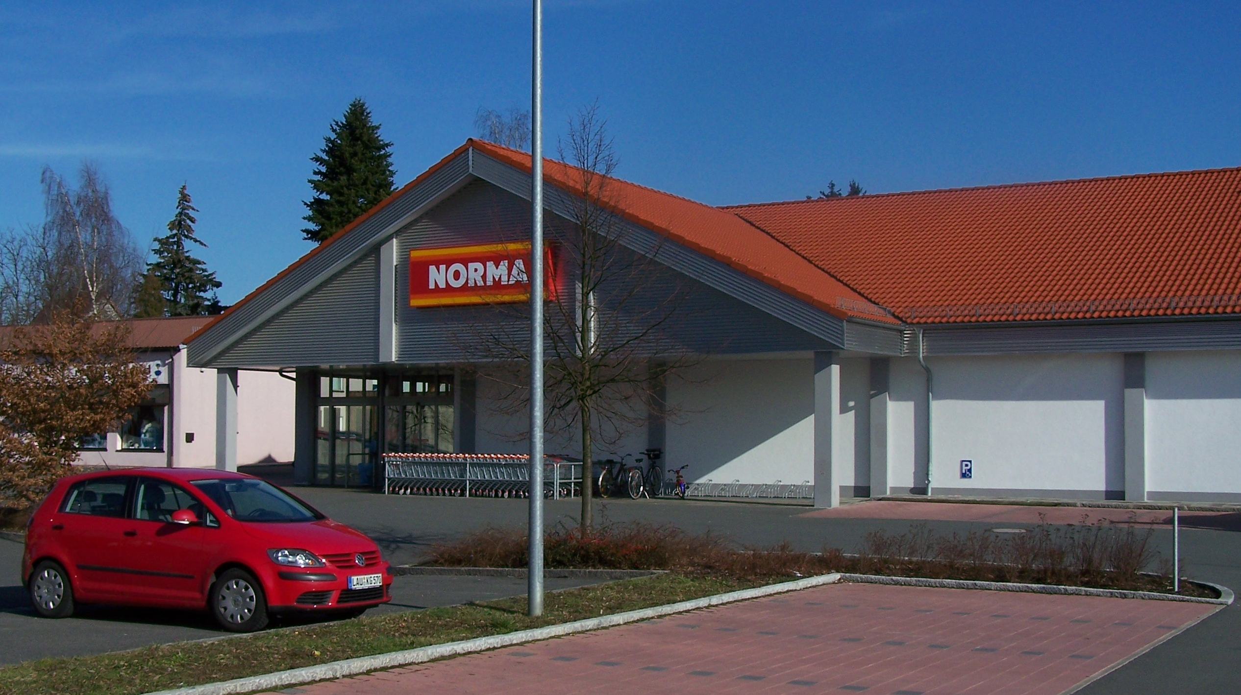 Supermarket (Norma) in Schnaittach, Germany.